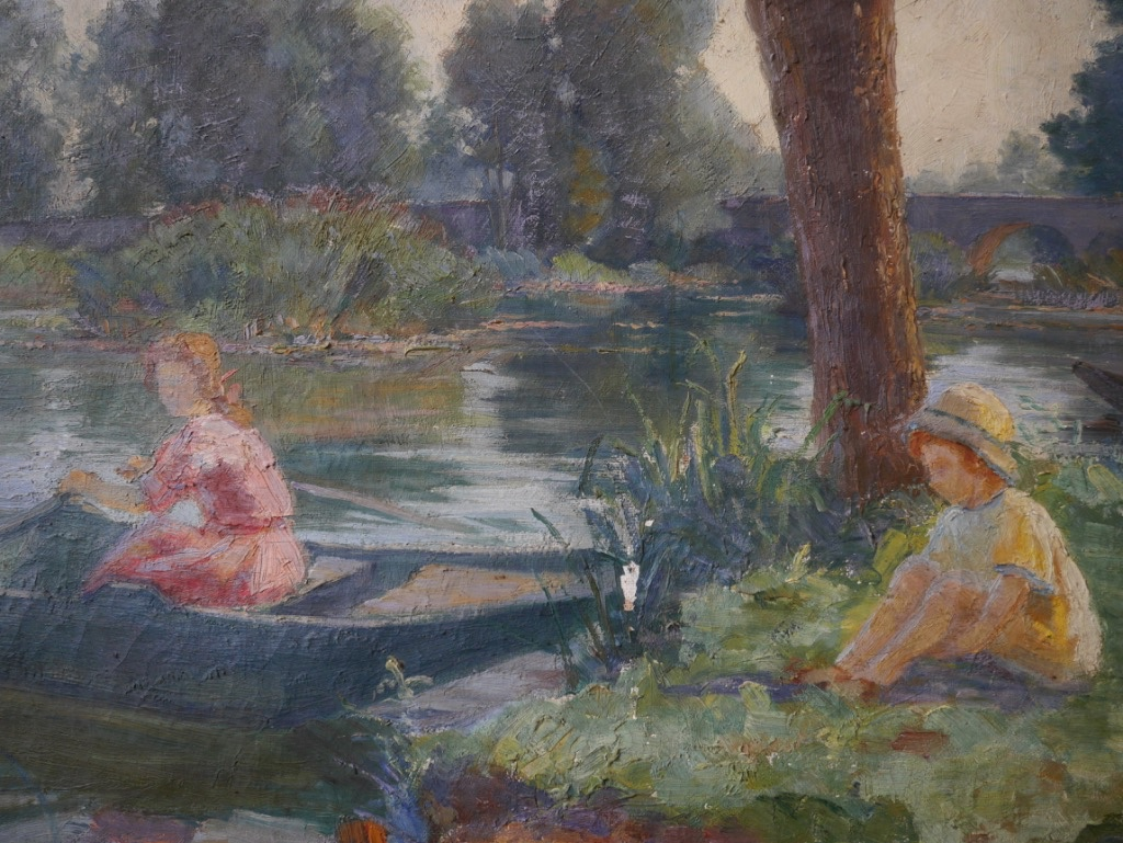 The Young Girls On The Edge Of Loing - Oil On Canvas guess date as 1905 by Fernande Sadler